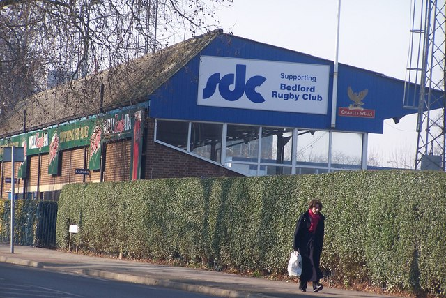 The Stand This was I think formerly known as the Charles Wells stand. Now that Charles Wells has joined forces with Youngs Brewery not sure what it's called. This is the stand where you sit - I can't get my head round it either.